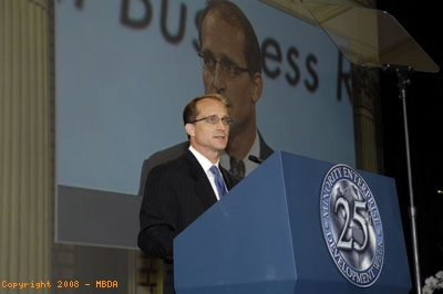 Administrator Preston speaking to MED Week Conference